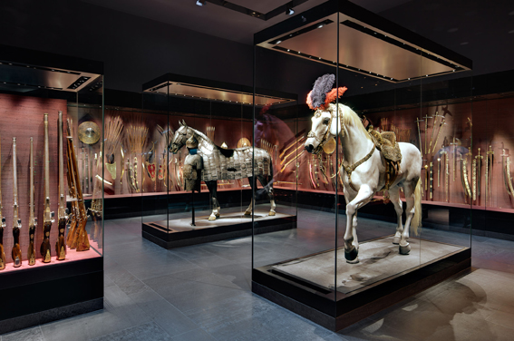 Turkish Chamber South-west wing: Ottoman and oriental style weaponsof the 16th and 17th centuries Right: Horse trappings from the Johann Michael Set (Prague 1610-1612) / Left: Horse armour and mail shirt (late15th/early 16th century)